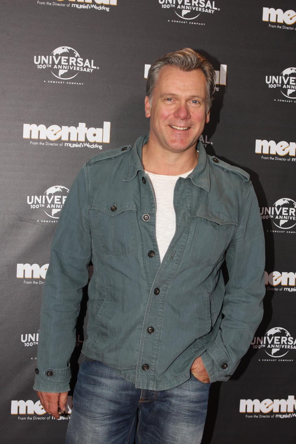 Erik Thomson attending the Australian movie premiere of 'Mental' at Event Cinemas, George St, Sydney.